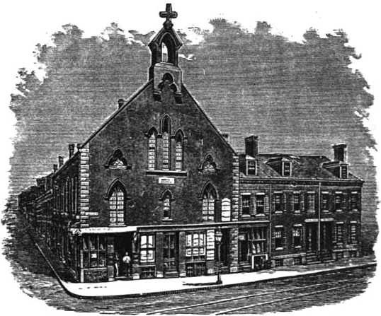 Morgan Chapel Building, 81 Shawmut Ave, Boston